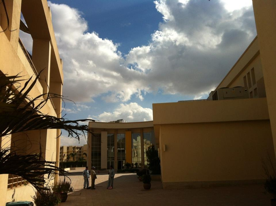 The interior of the AISEW.